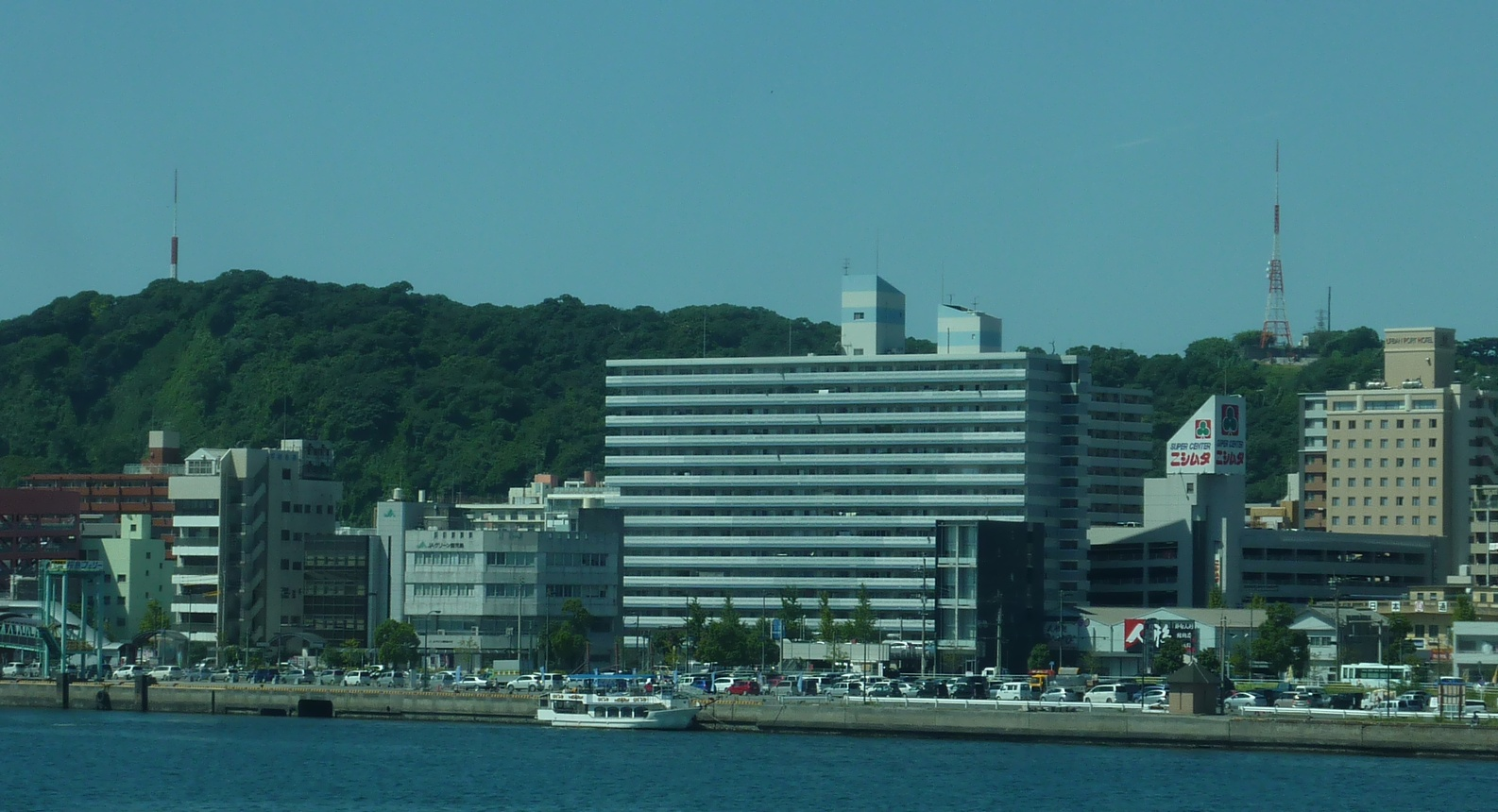 Shiroyama Transmitting Tower in 2011 (Kagoshima City, Japan)